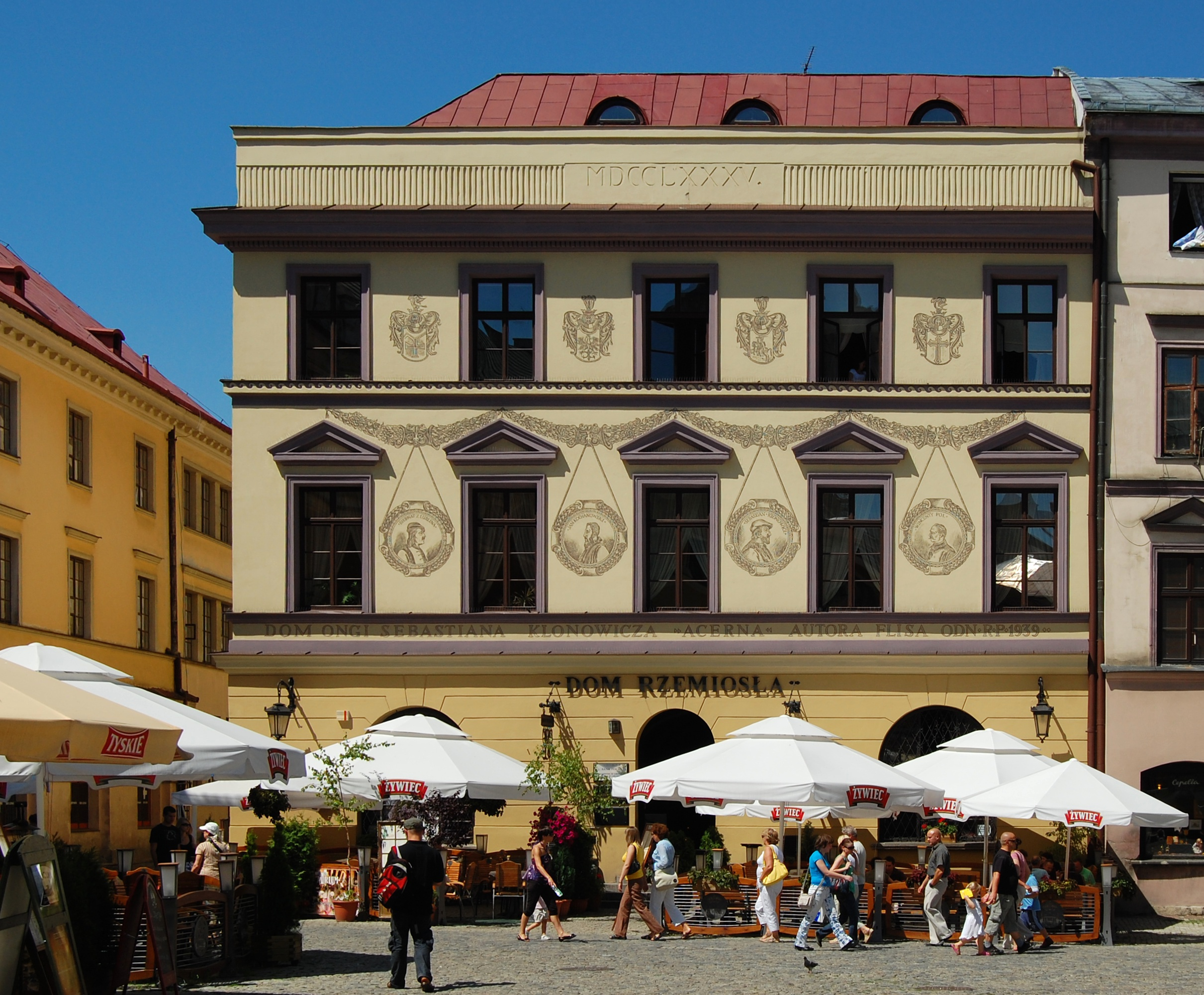 Klonowica tenement house in Lublin, Poland.